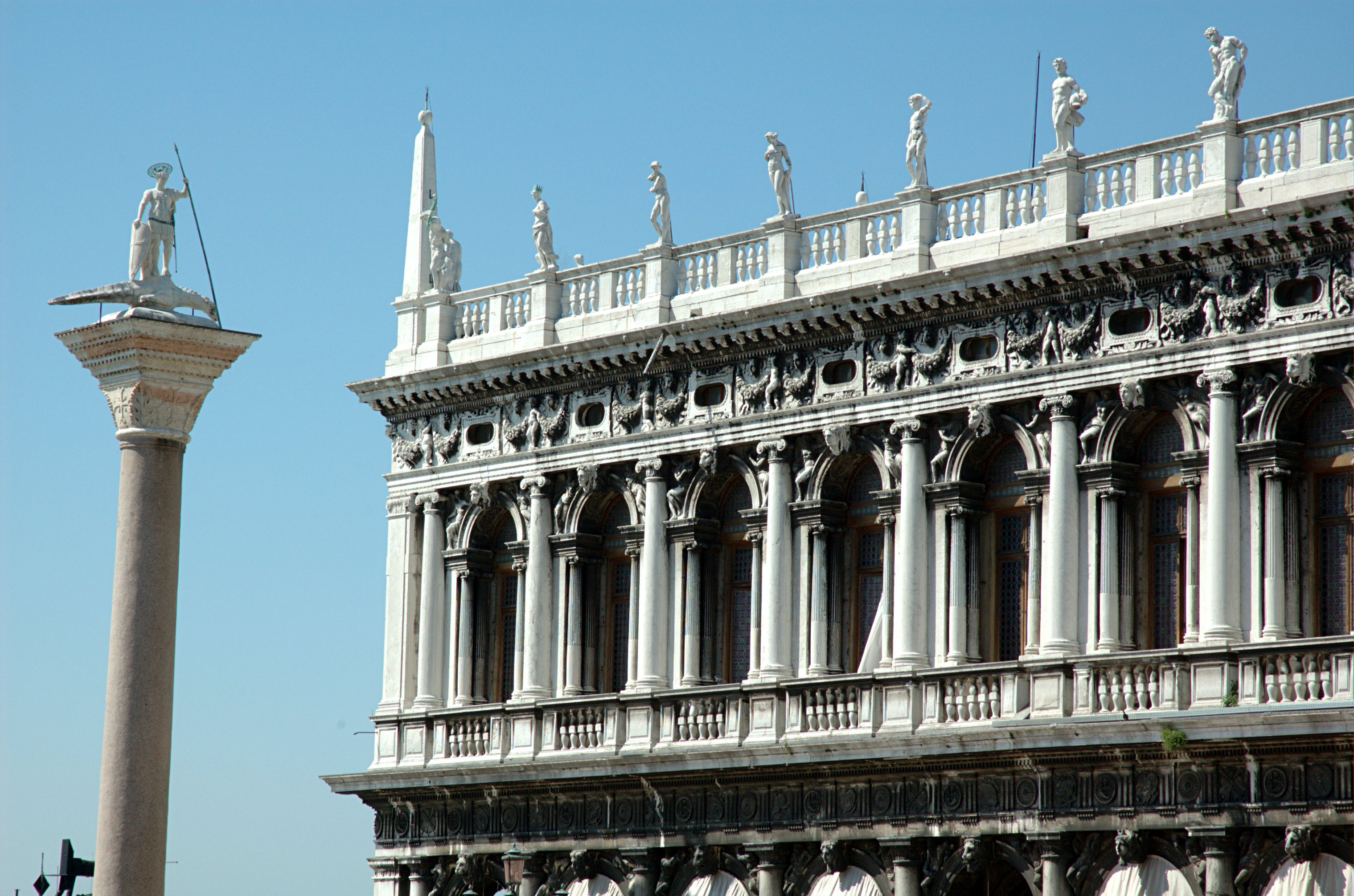 Statue of San Teodoro (Theodore) on a crocodile/drake, and the Biblioteca Marciana. Venice, Italy.